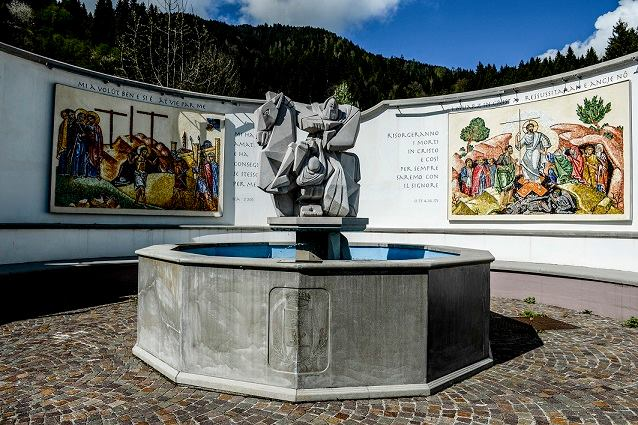 The Passion and Resurreption mosaics